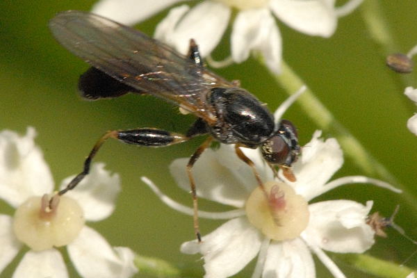 Megamerina dolium from Commanster, Belgian High Ardennes .